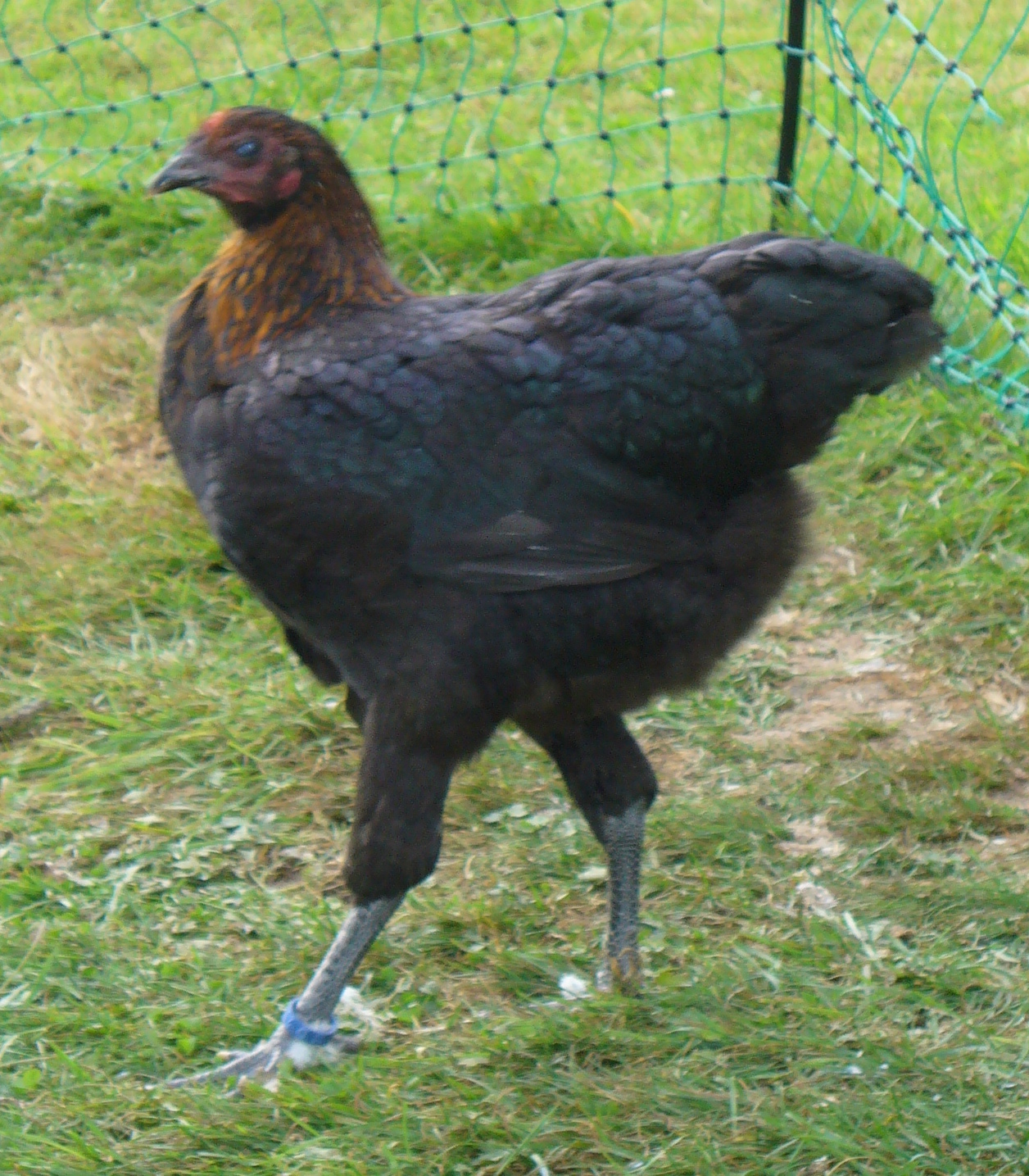 Side view of a young hen (gold-birchen German Langshan)